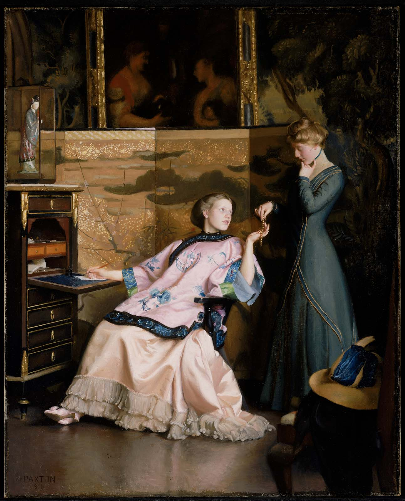 William McGregor Paxton, The New Necklace, 1910, Museum of Fine Arts, Boston